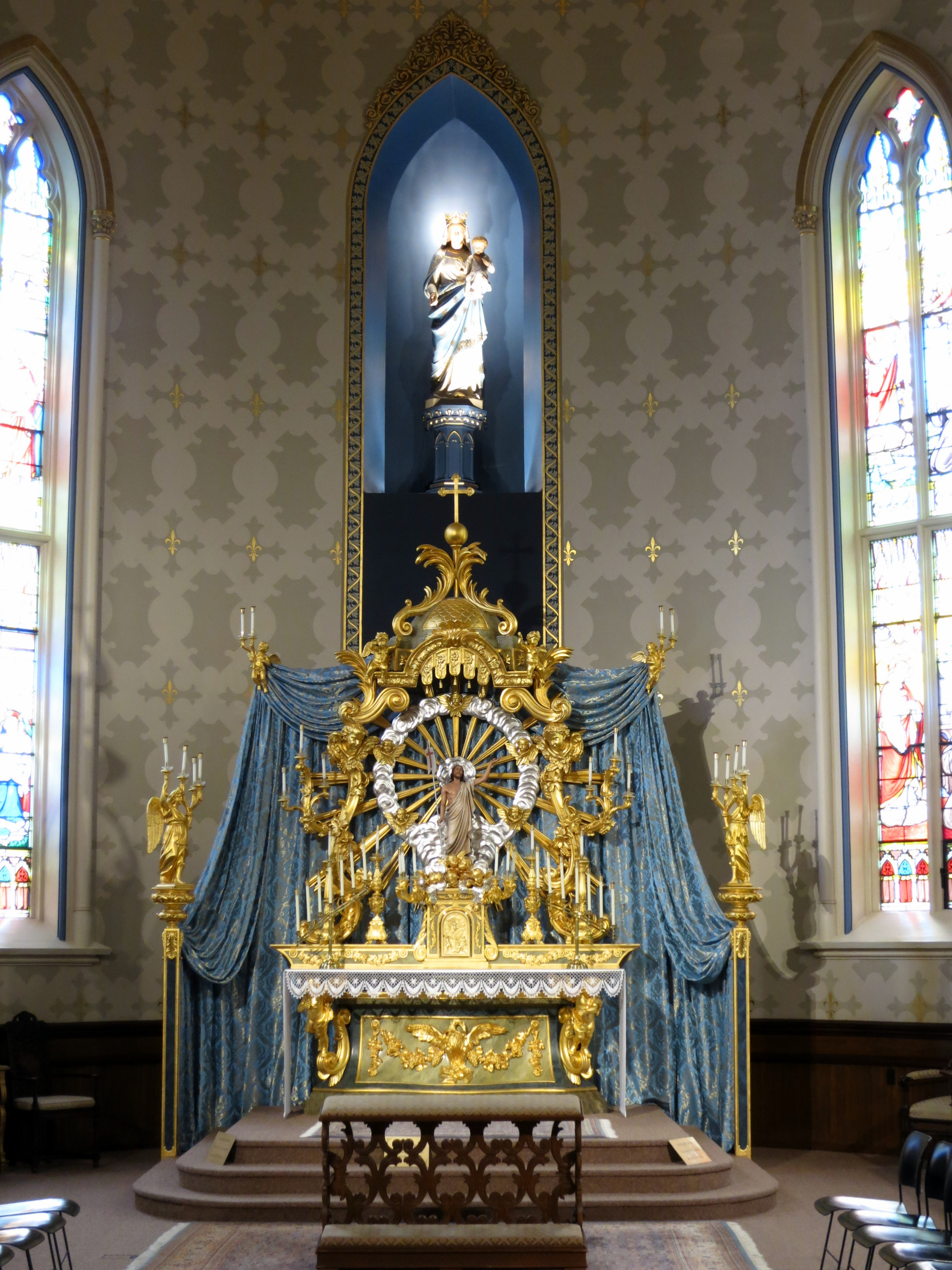 Basilica of the Sacred Heart (Notre Dame, Indiana) - interior, The Lady Chapel, baroque altar built by Bernini's studio